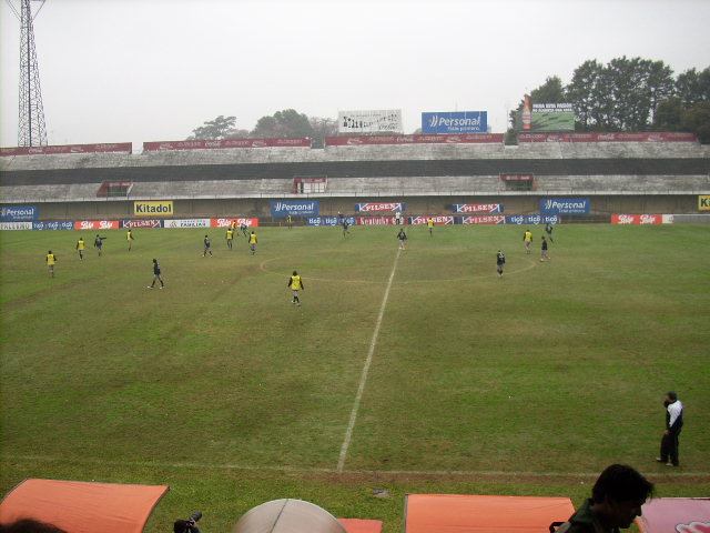 Practice of the first team squad in the Manuel Ferreira Stadium of Club Olimpia in Asuncion, Paraguay.